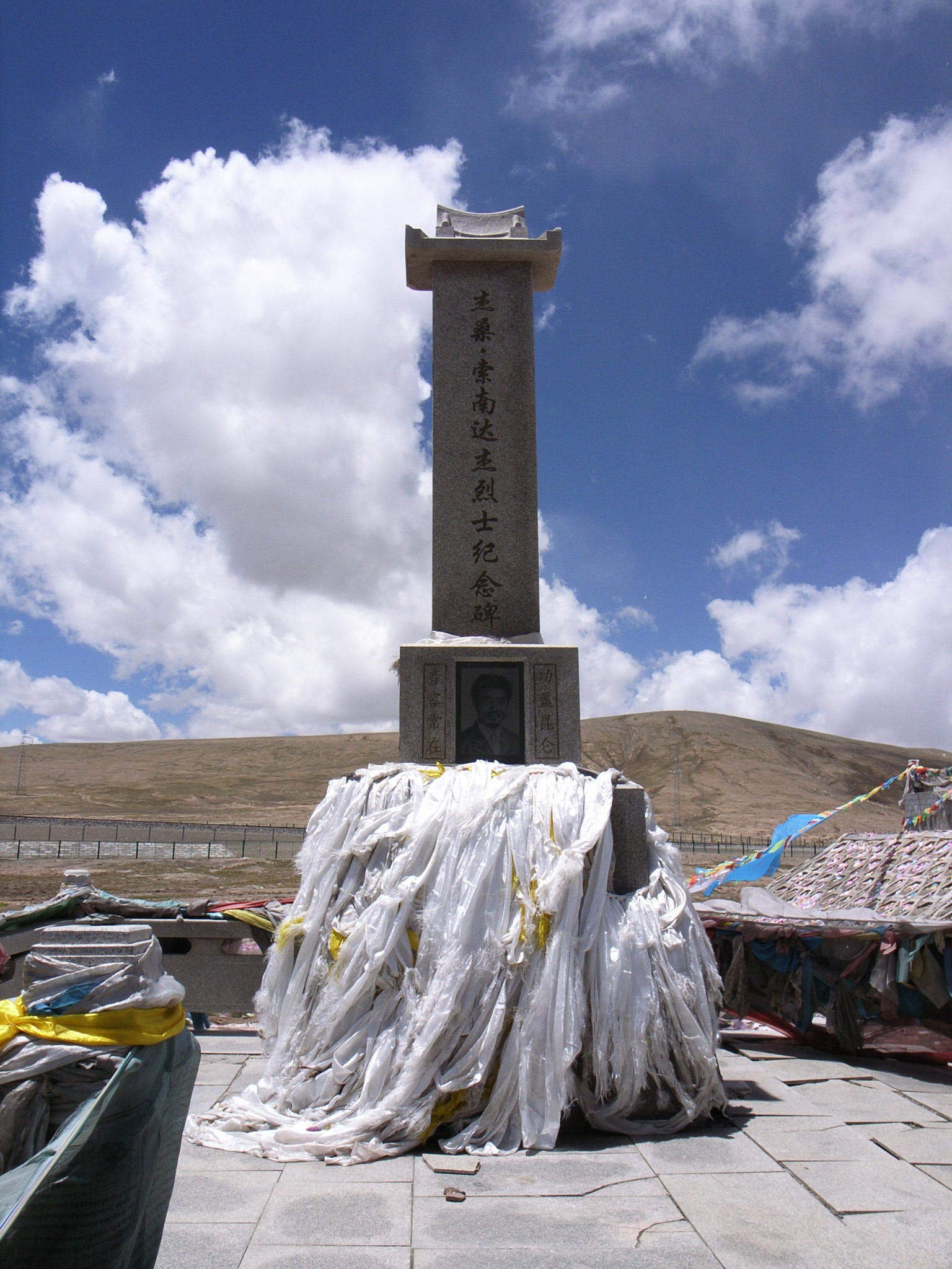 Monument for hero Suonandajie — in Qinghai.